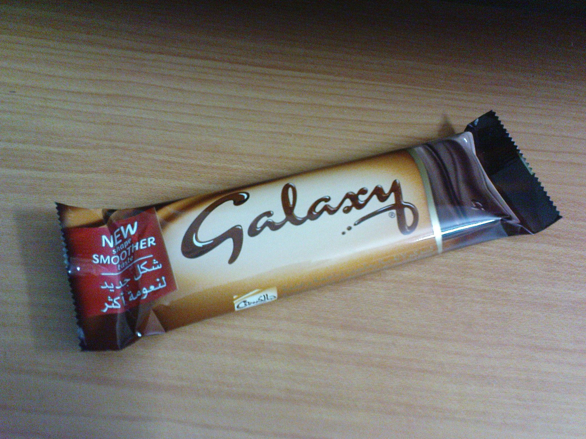 Galaxy Chocolates sold in the Middle East